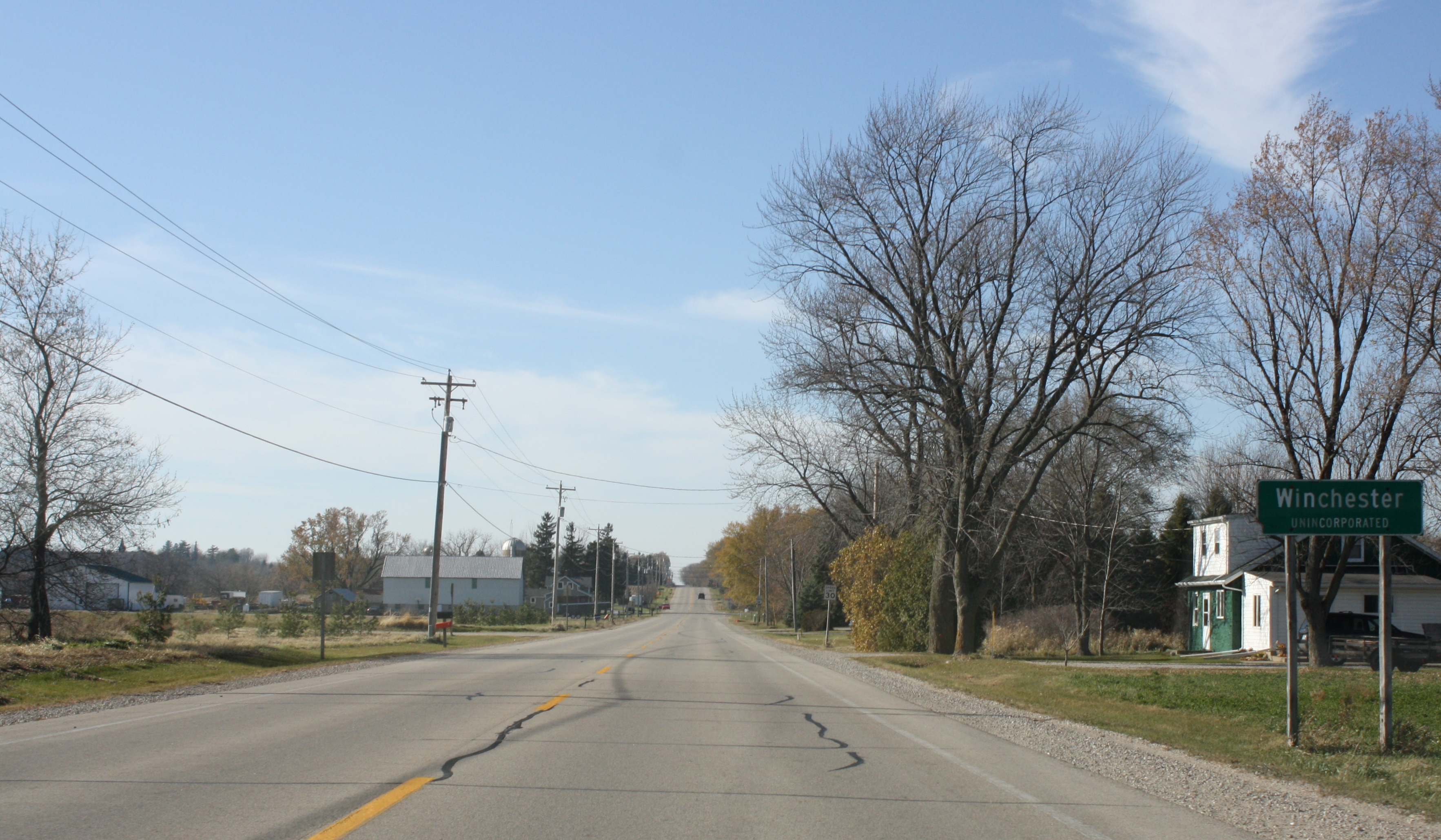 Looking west at the sign for Winchester (community), Wisconsin in Winnebago County, Wisconsin along the former route of defunct Wisconsin Highway 150.